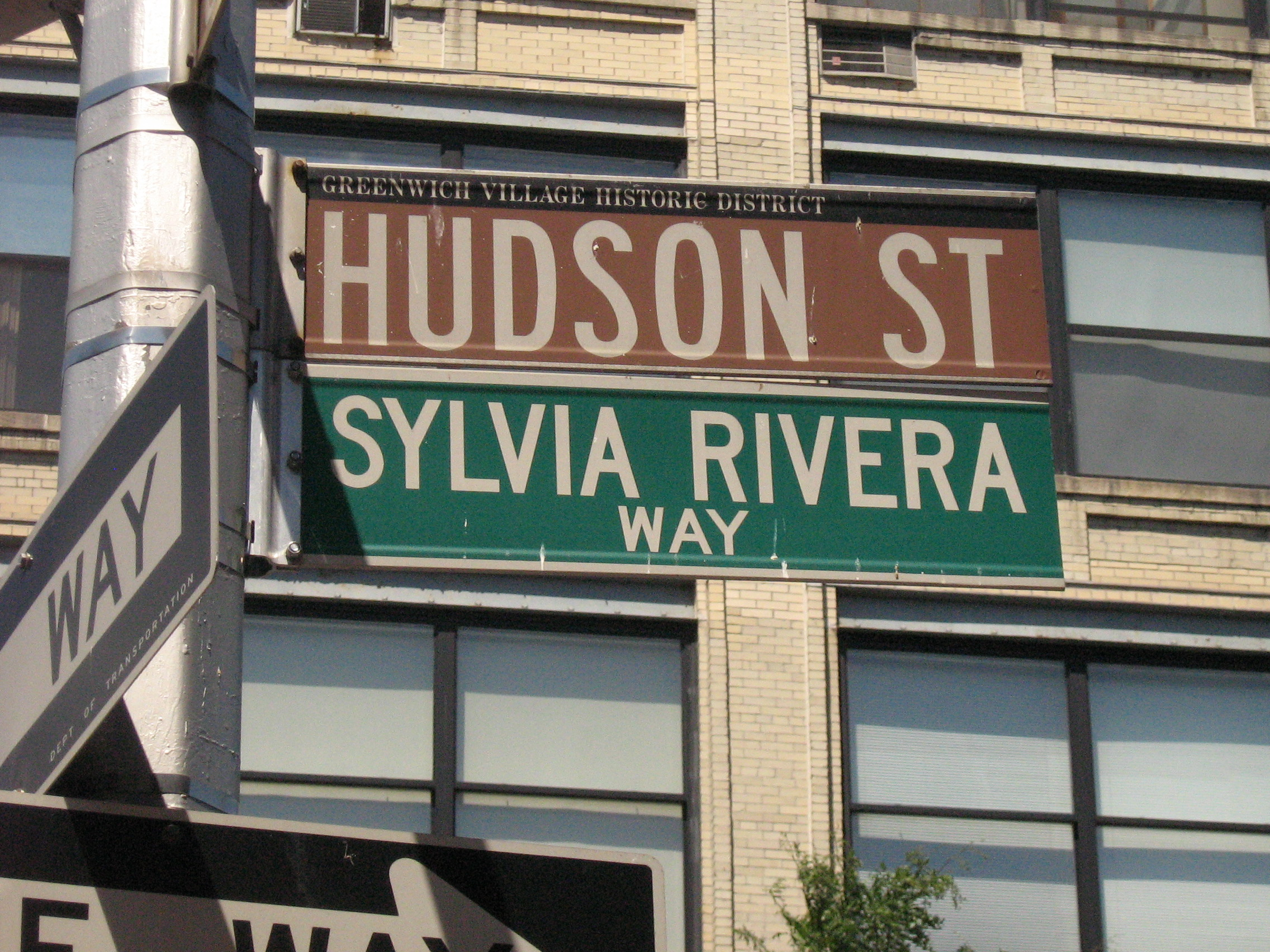 Picture of the "Sylvia Rivera Way" Sign